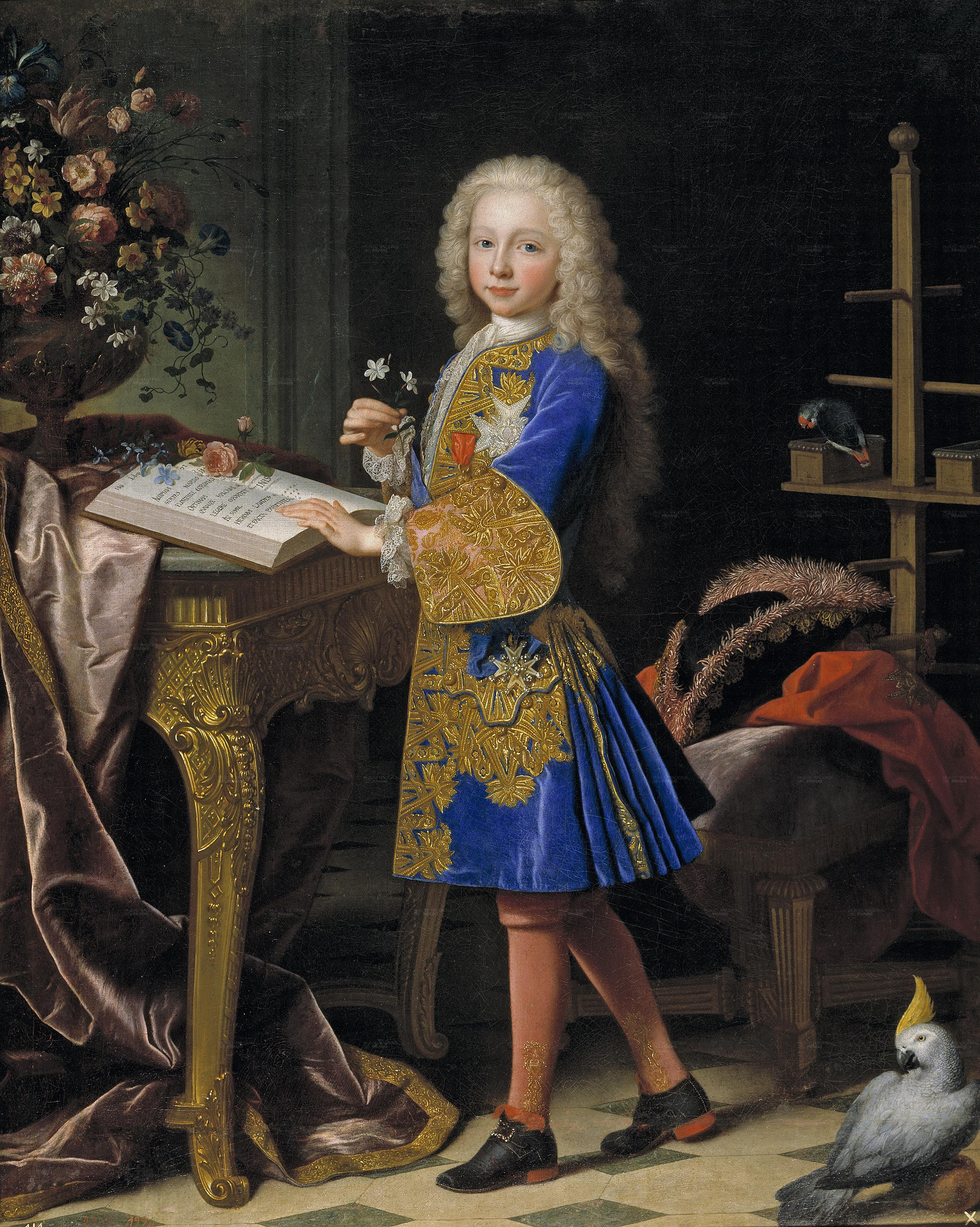 Charles III (20 January 1716 – 14 December 1788) was the King of Spain and the Spanish Indes from 1759 to his death in 1788. Eldest son of Philip V of Spain and his second wife, Princess Elisabeth of Parma, he became the Duke of Parma and Piacenza under the name of Charles I (at the death of his great uncle Antonio Farnese); later on in 1734 while Duke of Parma he conquered the Kingdoms of Naples and Sicily and was thus created the King of Naples and Sicily due to a personal union; he ruled under the simple name of Charles with no specific numeration even though time has made him Charles VII of Naples and Charles V and Sicily. In Sicily, he was known as Charles III of Sicily and of Jerusalem; using the ordinal one III rather than V for the Sicilian people did not recognise as their sovereign legitimate one or Charles I of Naples (Charles d'Anjou), against whom they rebelled, nor the Emperor Charles, quickly discharged of the island. He was crowned King of Naples and Sicily at Palermo, Sicily on 3 July 1735.